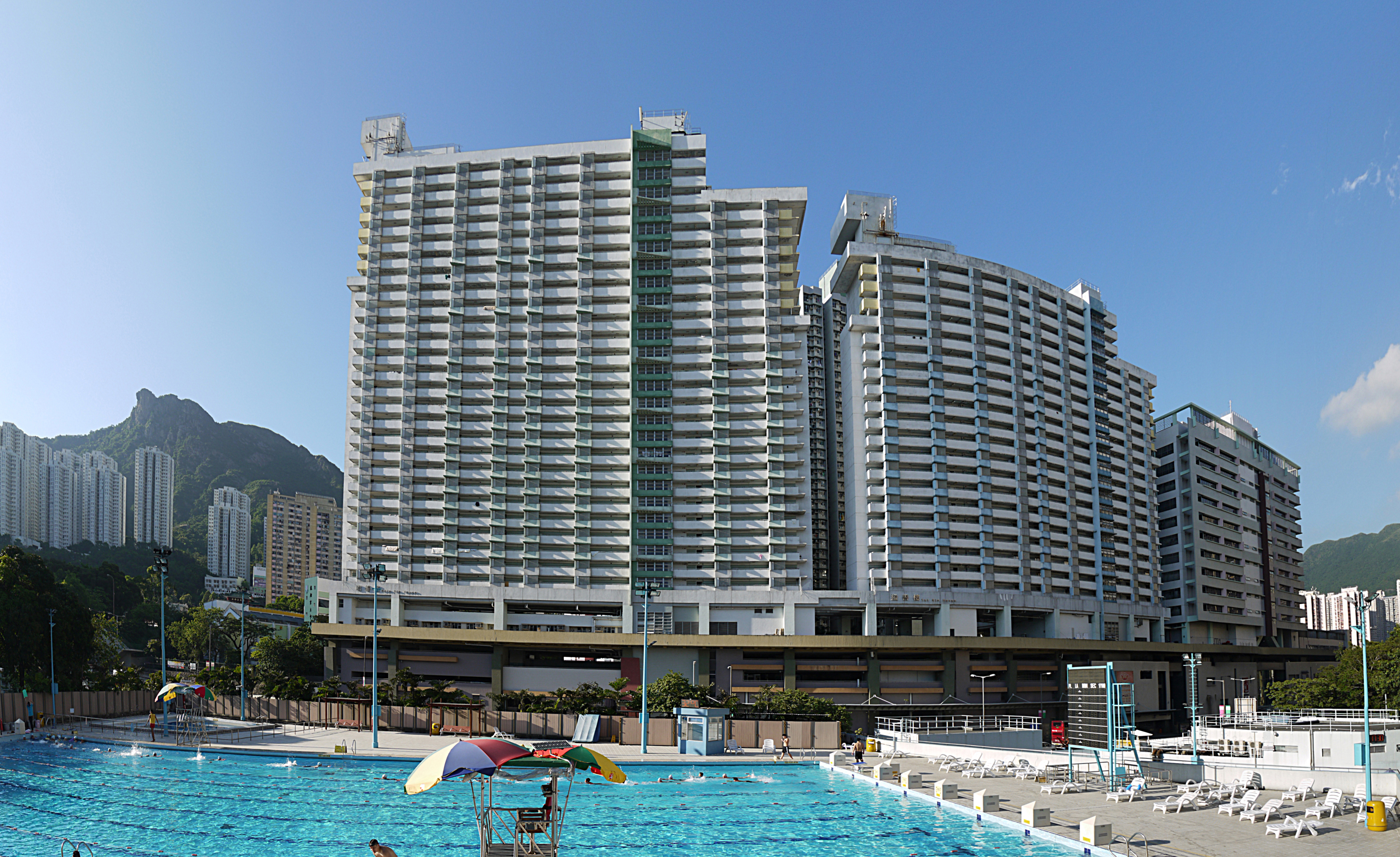 Upper Wong Tai Sin Estate Phase 4